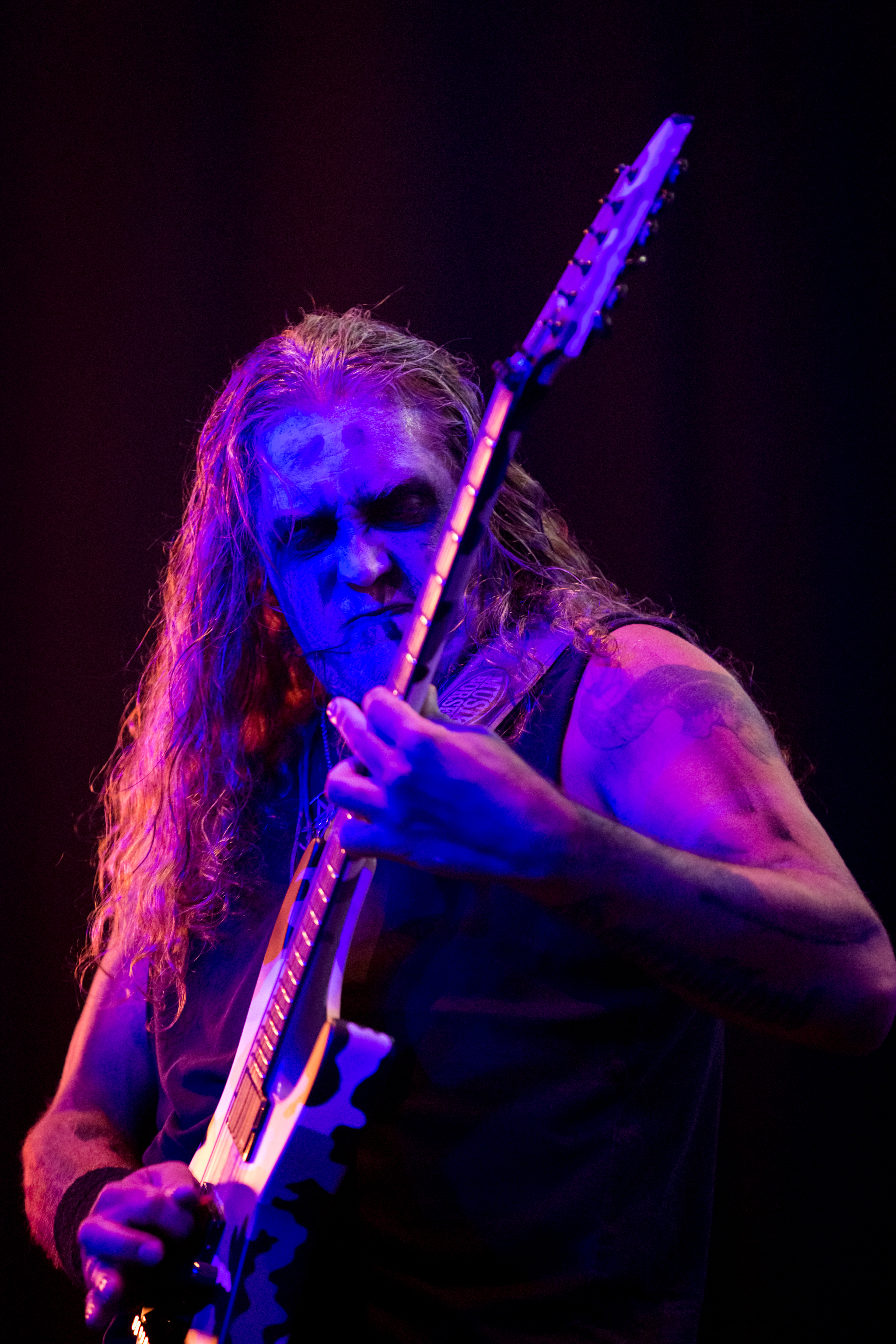 Marduk - Wacken Open Air 2016